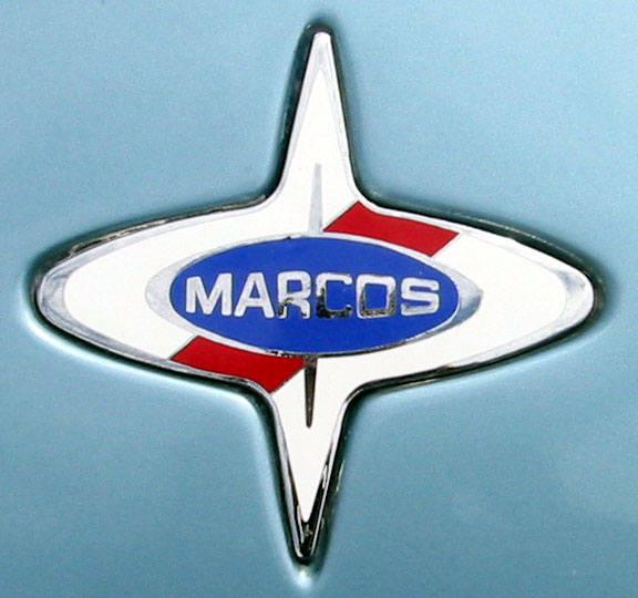 emblem of the automaker Marcos